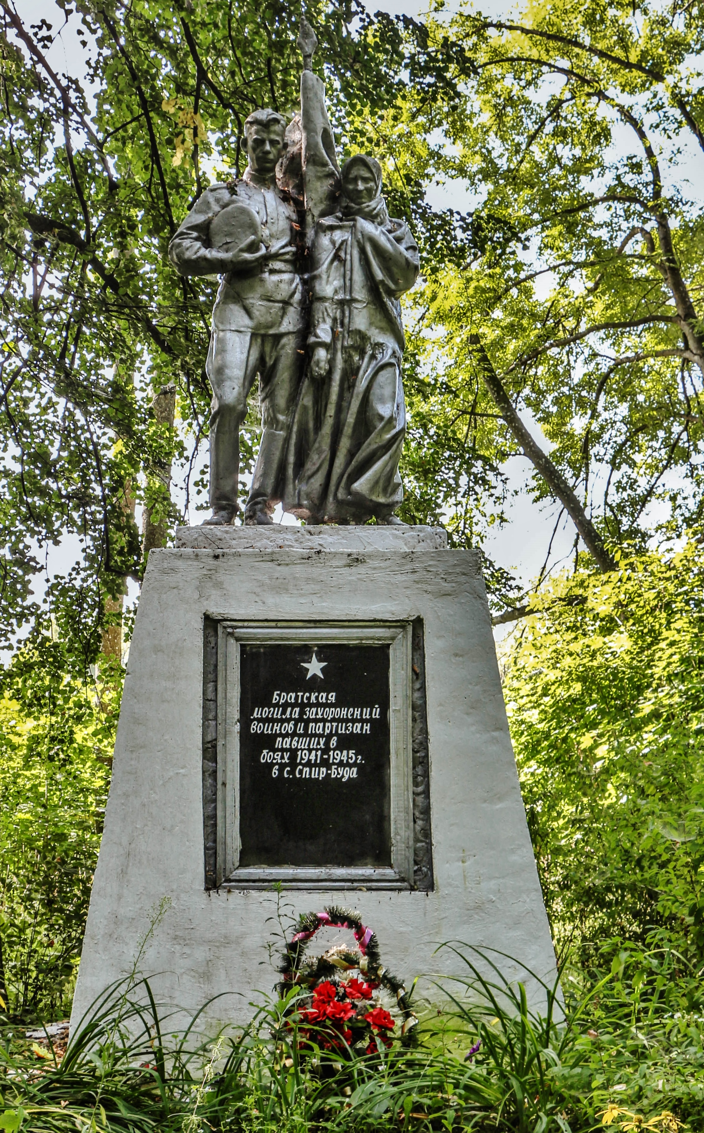 spiridonova buda